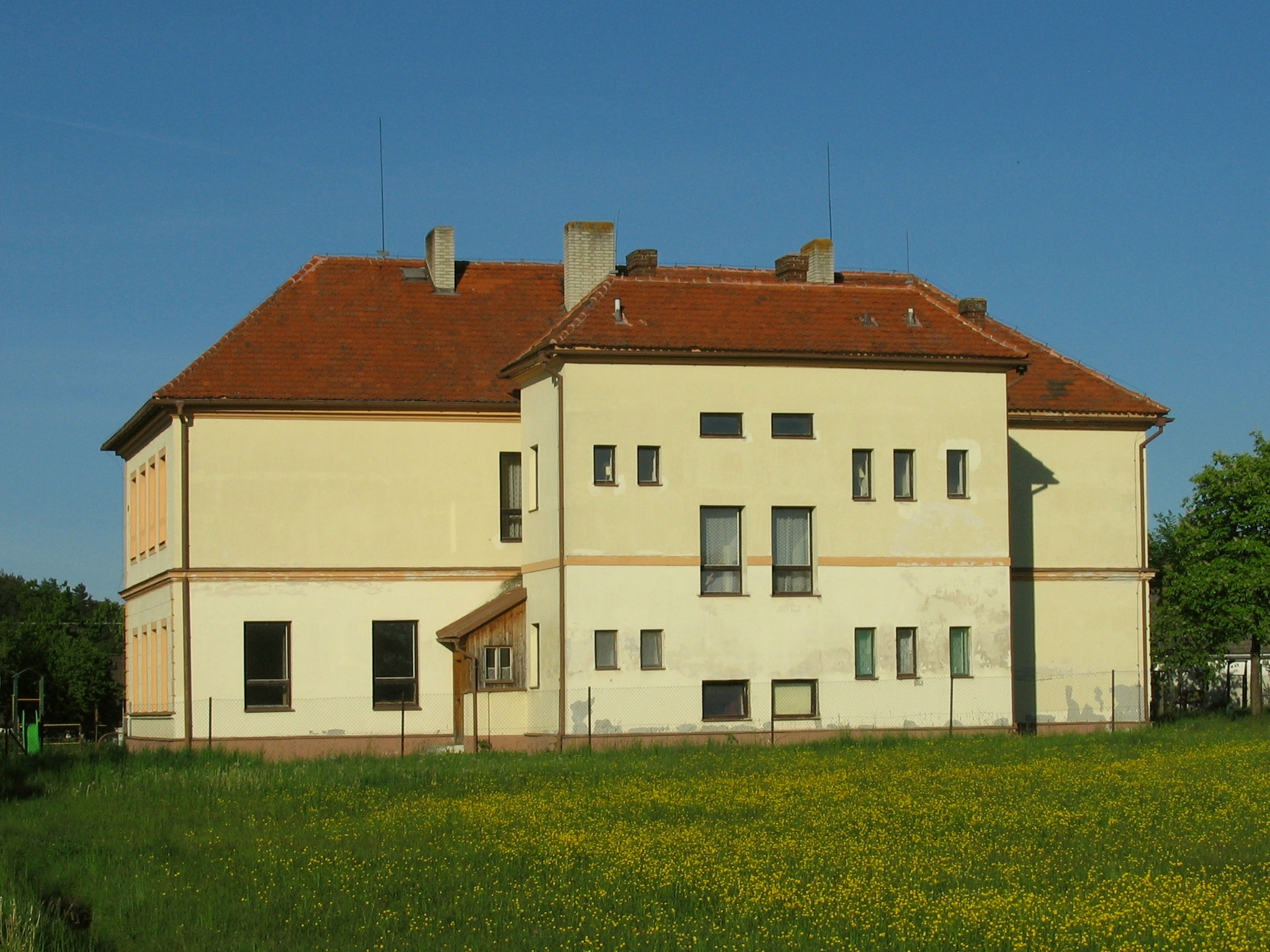 School building in Soběšice, Klatovy District, Czech Republic